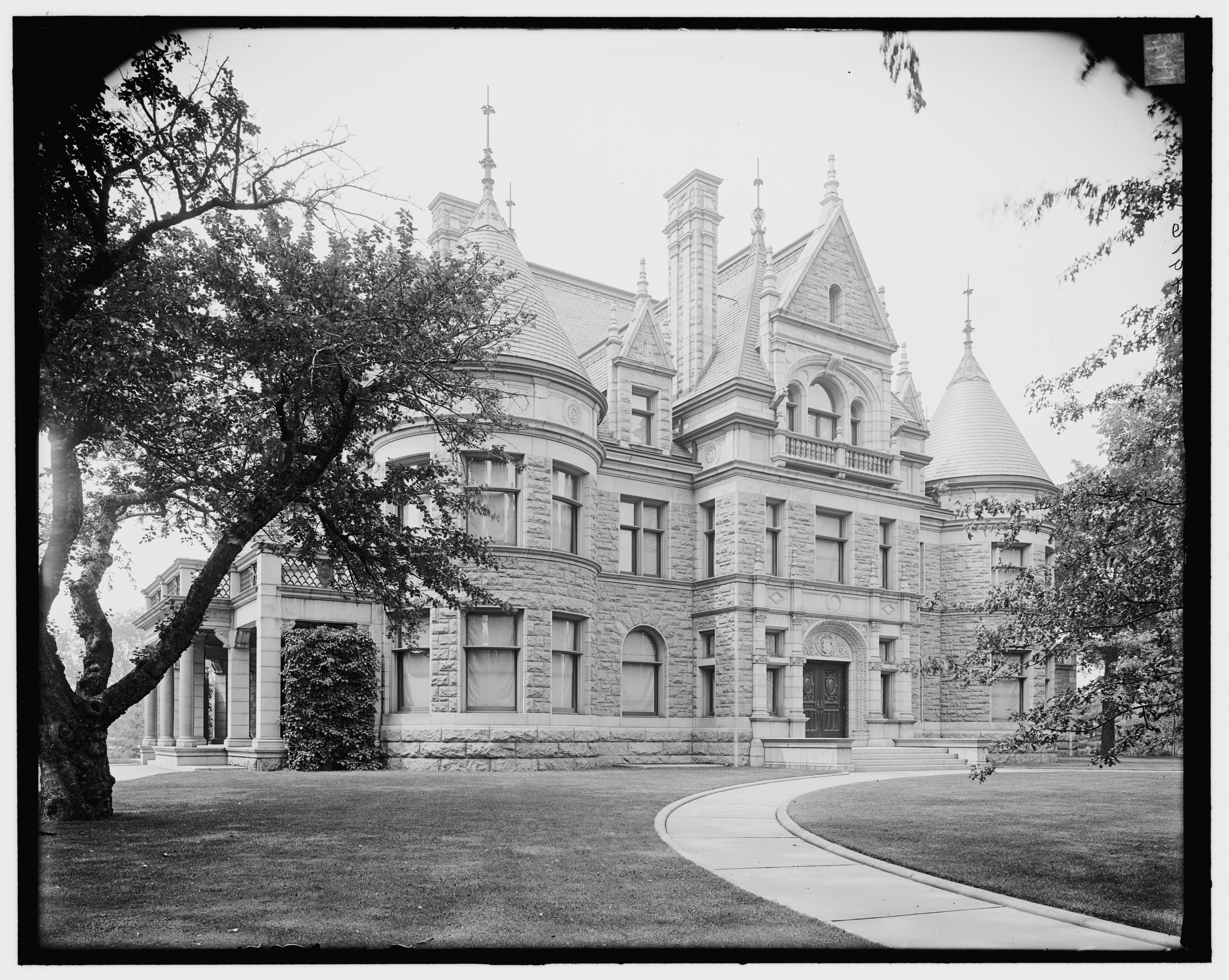 Residence of Daniel B. Wesson, Springfield Massachusetts, between 1900 and 1910